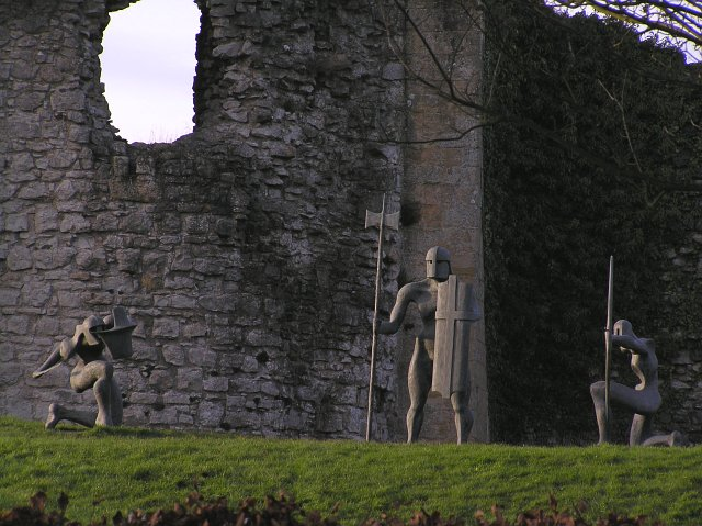 Statues by the walls of Helmsley Castle. The site is run by English Heritage.